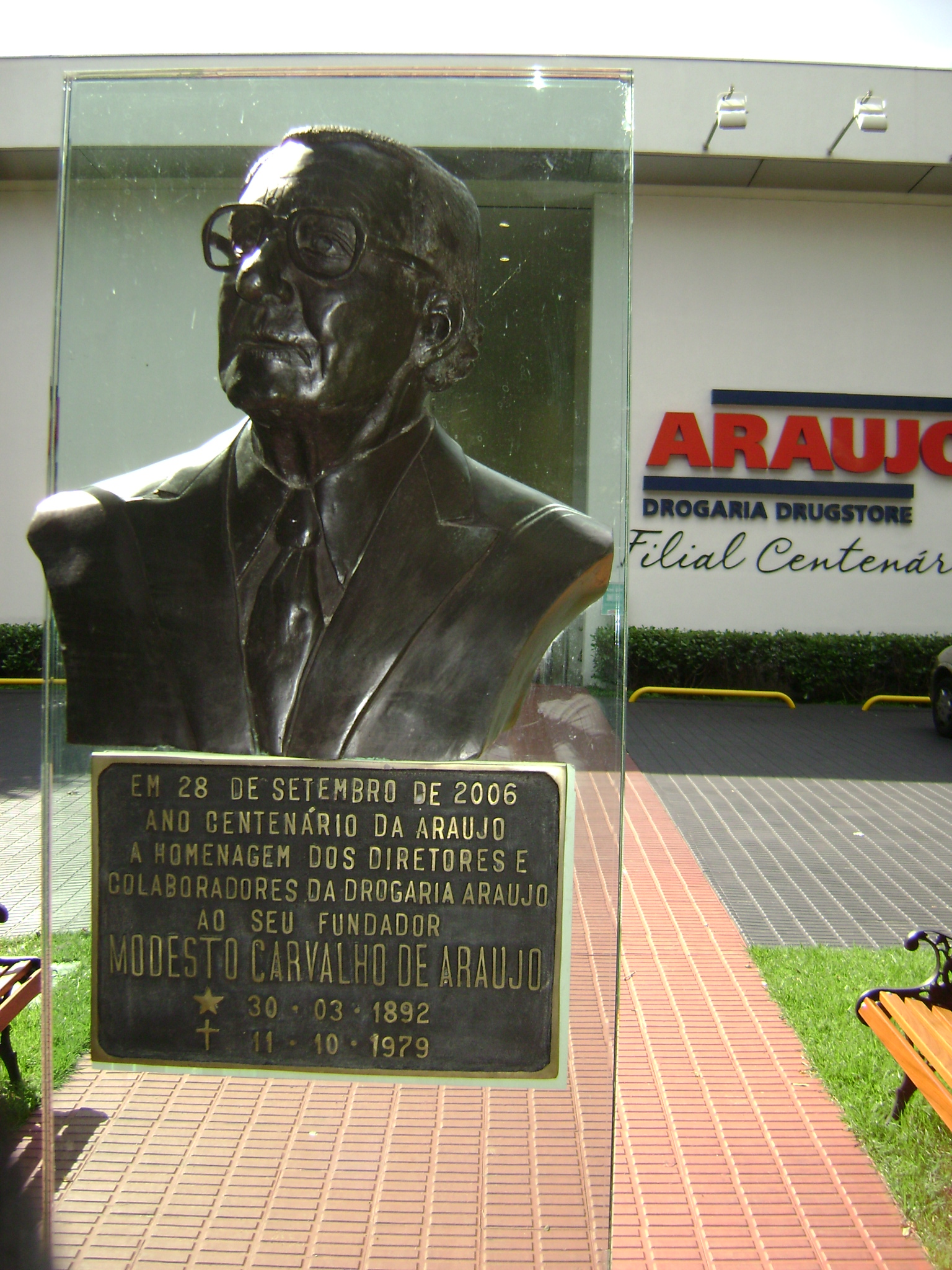 Homenagem ao Modesto Carvalho de Araujo em Belo Horizonte.